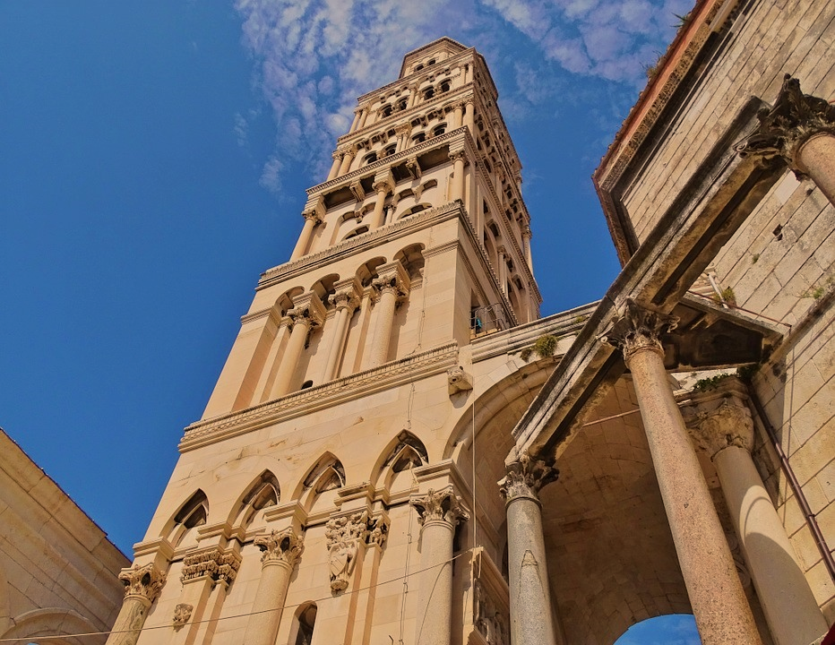 Church tower of st. Domnius